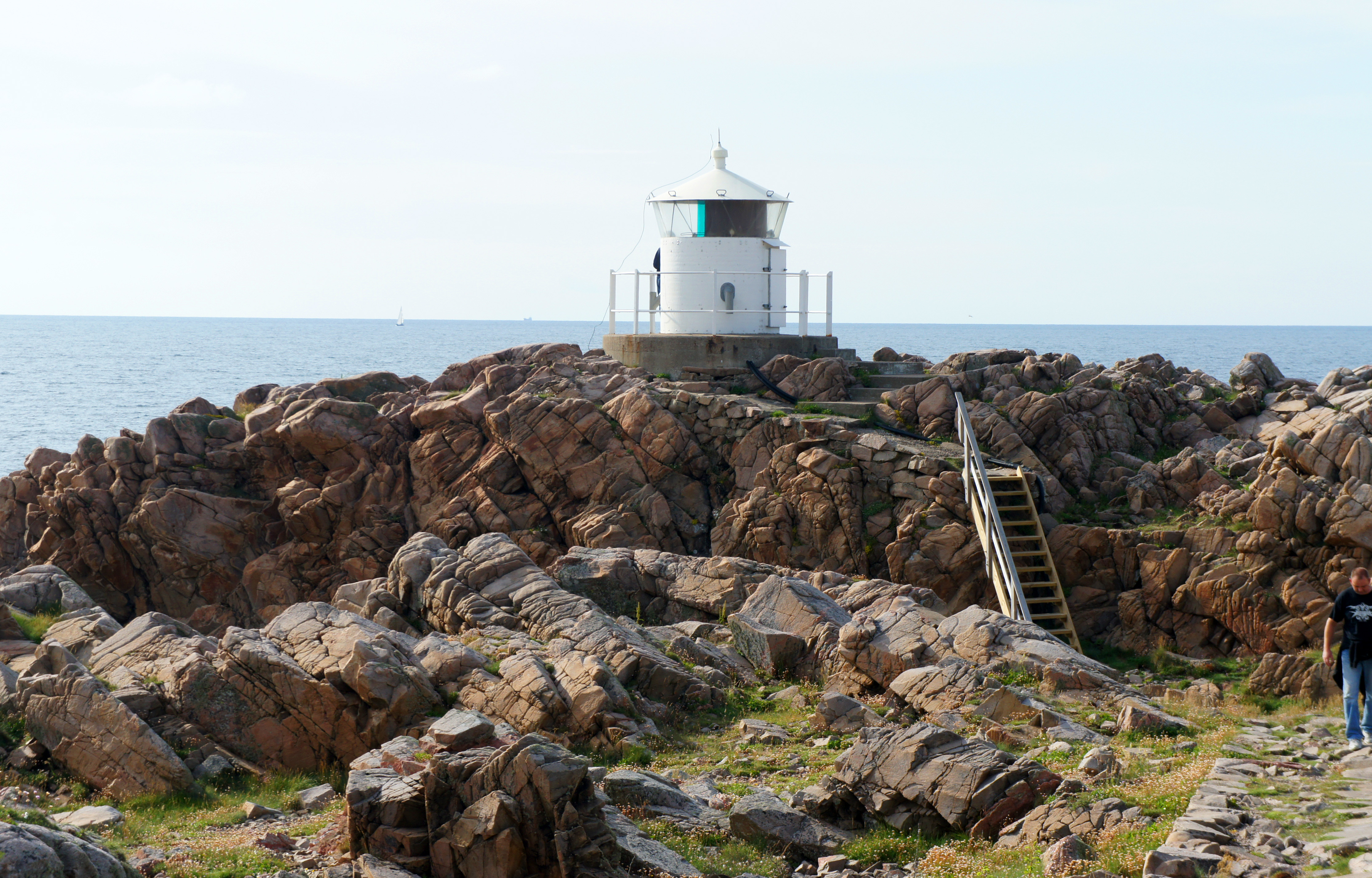 The lower lighthouse at Kullen, Sweden